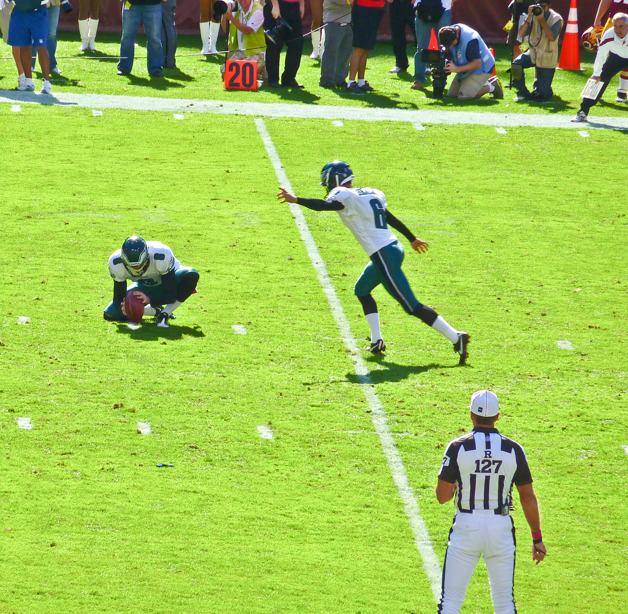 Alex Henery kicks a field goal while punter Chas Henry holds, 2011.